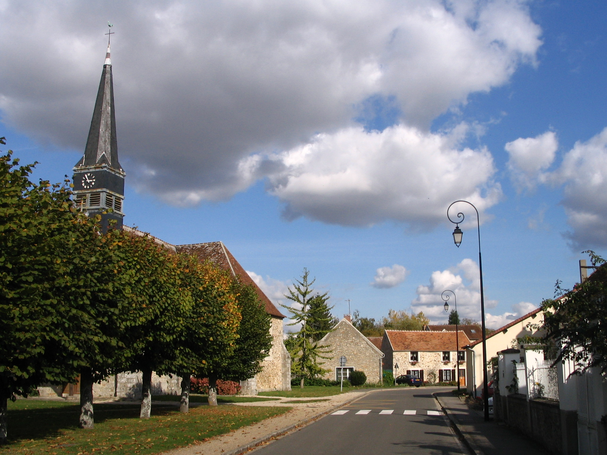 Villepatour Street, in Courquetaine, Seine-et-Marne, France.